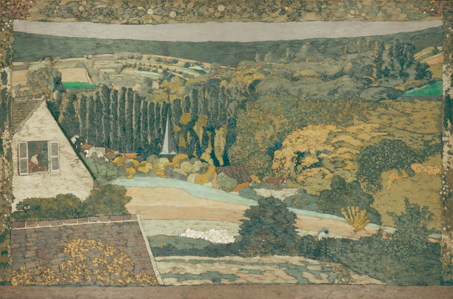 Window overlooking the Woods